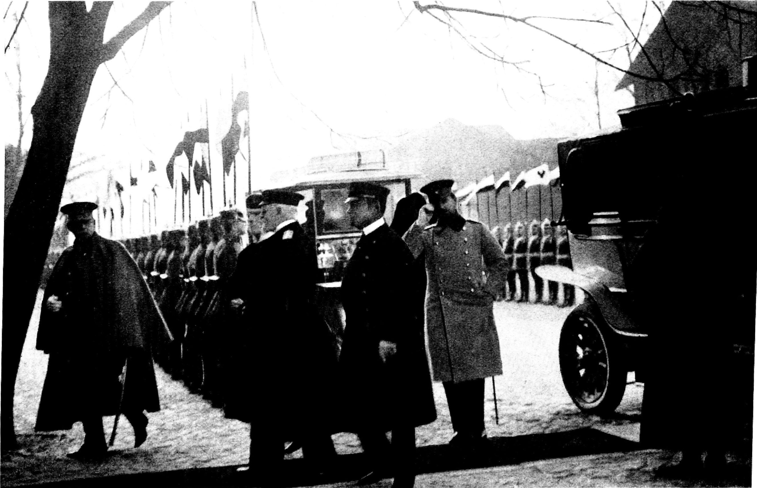 The entourage of King Edward VII. during his visit to Berlin in February of 1909 and the German officers attached to the entourage. The picture was taken during Edward's visit to the King's own regiment, the 1. Guard-Dragoons. Left to right: Field Marshall Lord Grenfell (reprenstative of the English Army); then Admiral Sir Day Bosanquet (Representative of the English Navy) and (concealed) Commander Cunningham (aide-de-camp to the King). Behind them Captain Wilhelm Widenmann and Major Roland Ostertag.